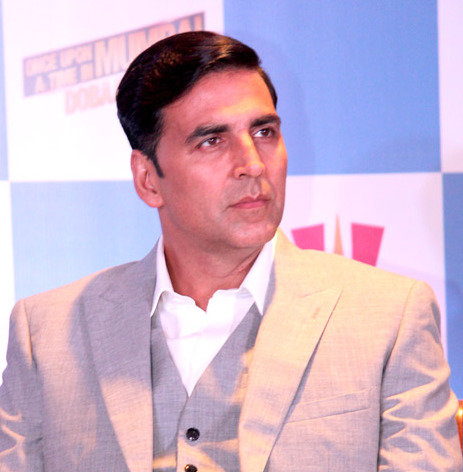 Akshay during the press conference for OUATIM2, 2013